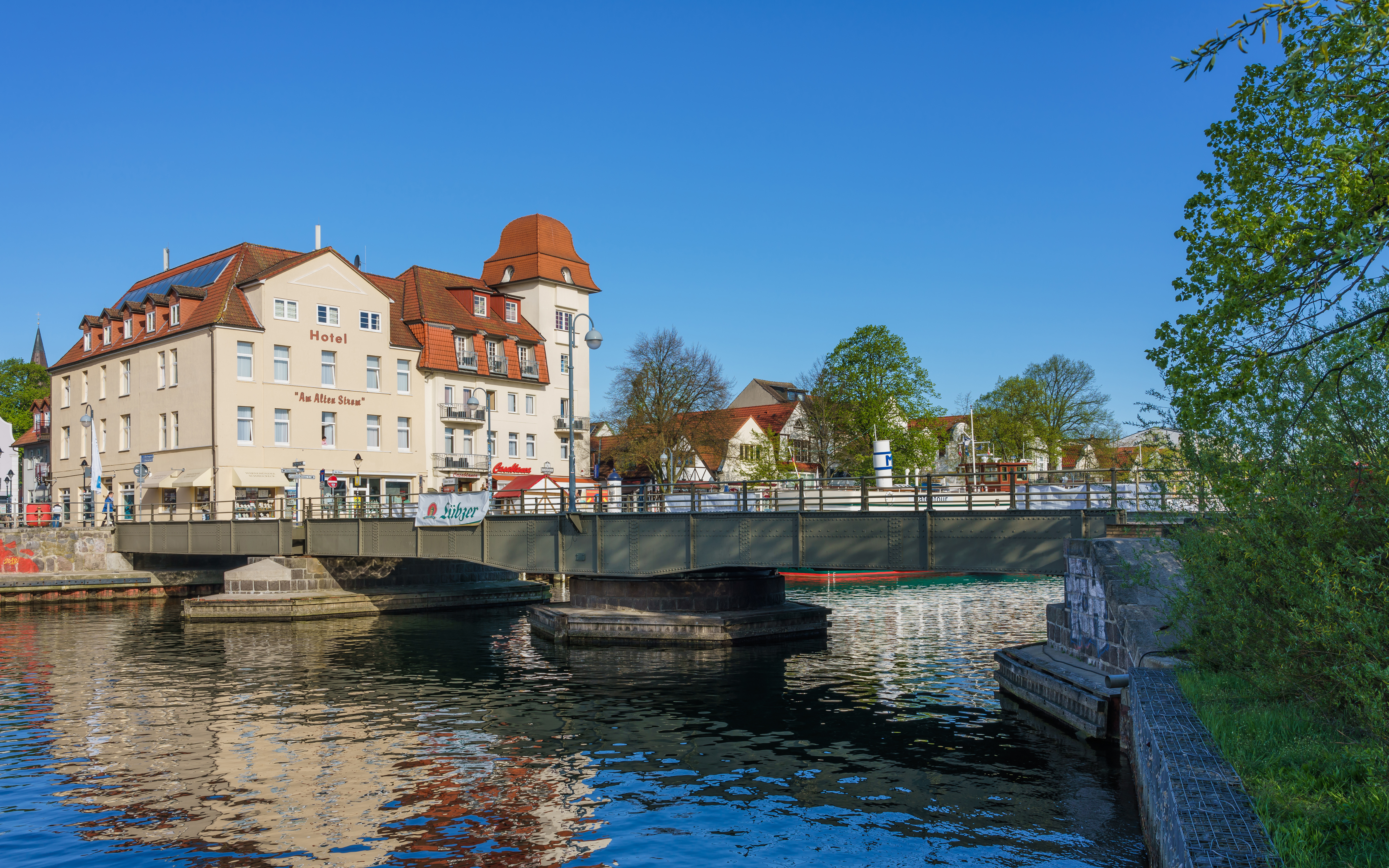 Surroundings of the port of Warnemünde, Rostock, Germany